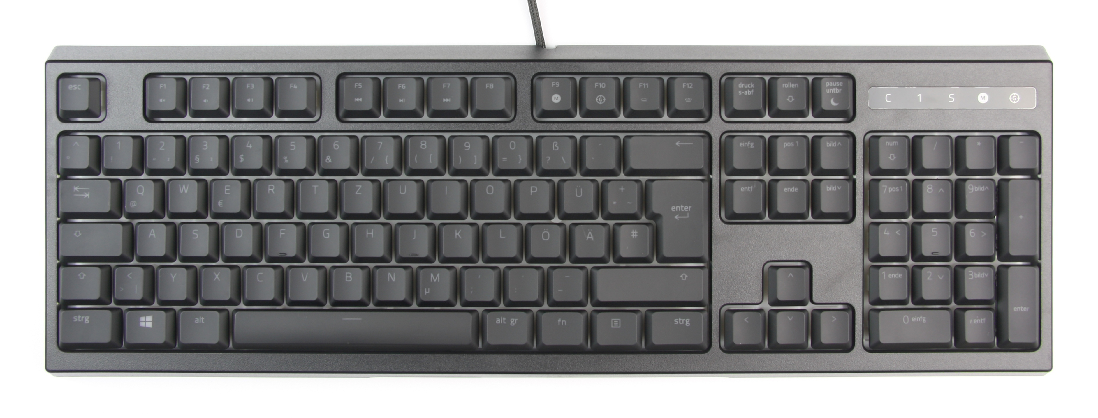 A Razer Ornata Chroma Keyboard